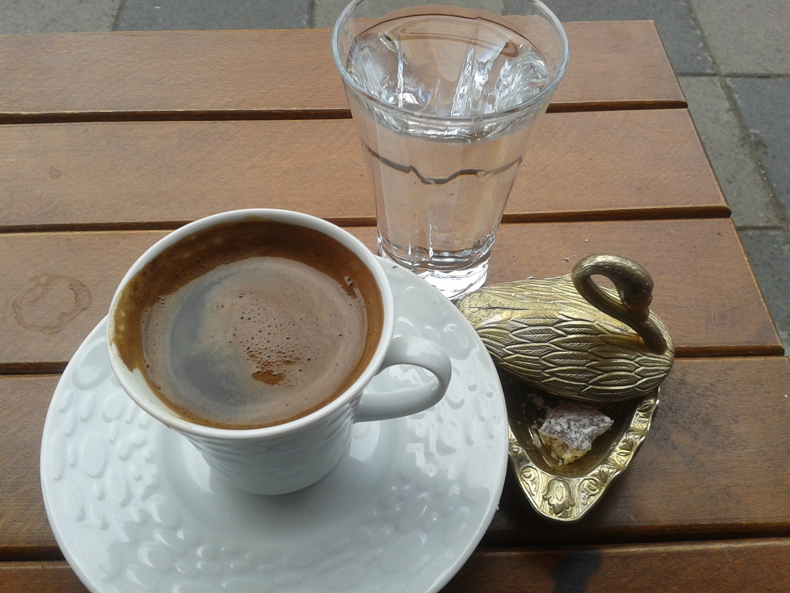 Turkish coffee served in Ankara, the way it should be: with a glass of plain water and some Turkish delight (lokum).